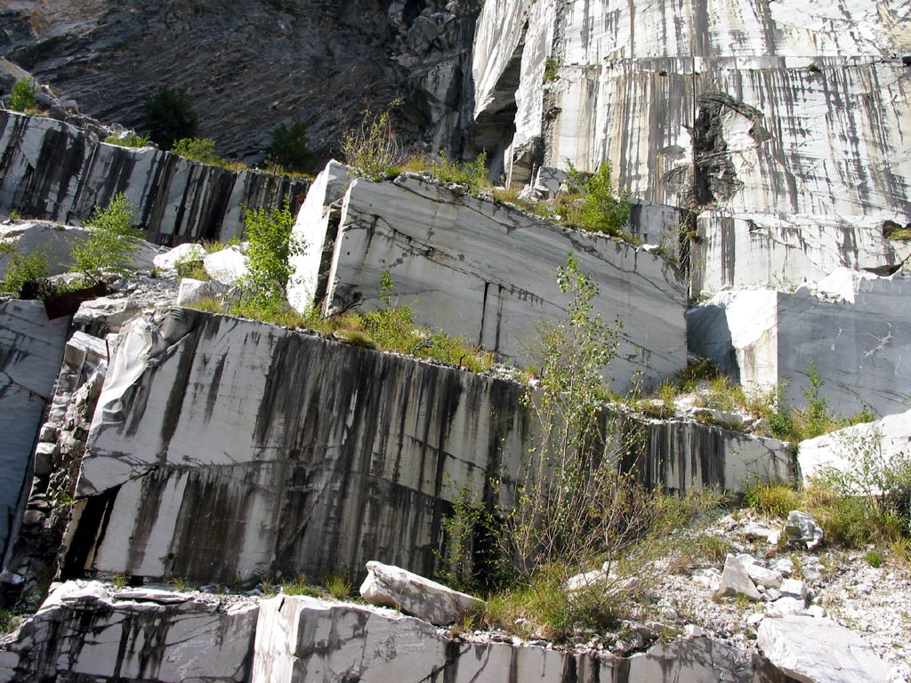 Deserted Marble Quarry in the Massa-Carrara Region, Italy